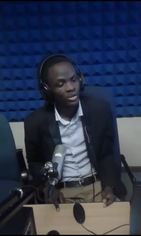 Joseph kalimbwe being Interviewed at a local Radio station